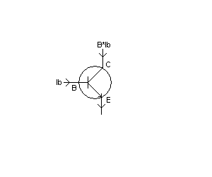 Transistor